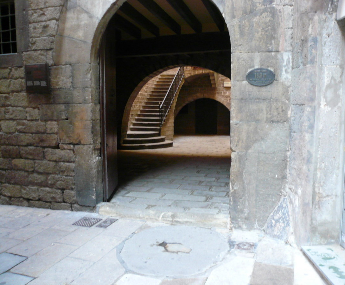 Mont Tàber summit in Barcelona. 16,9 m over sea level